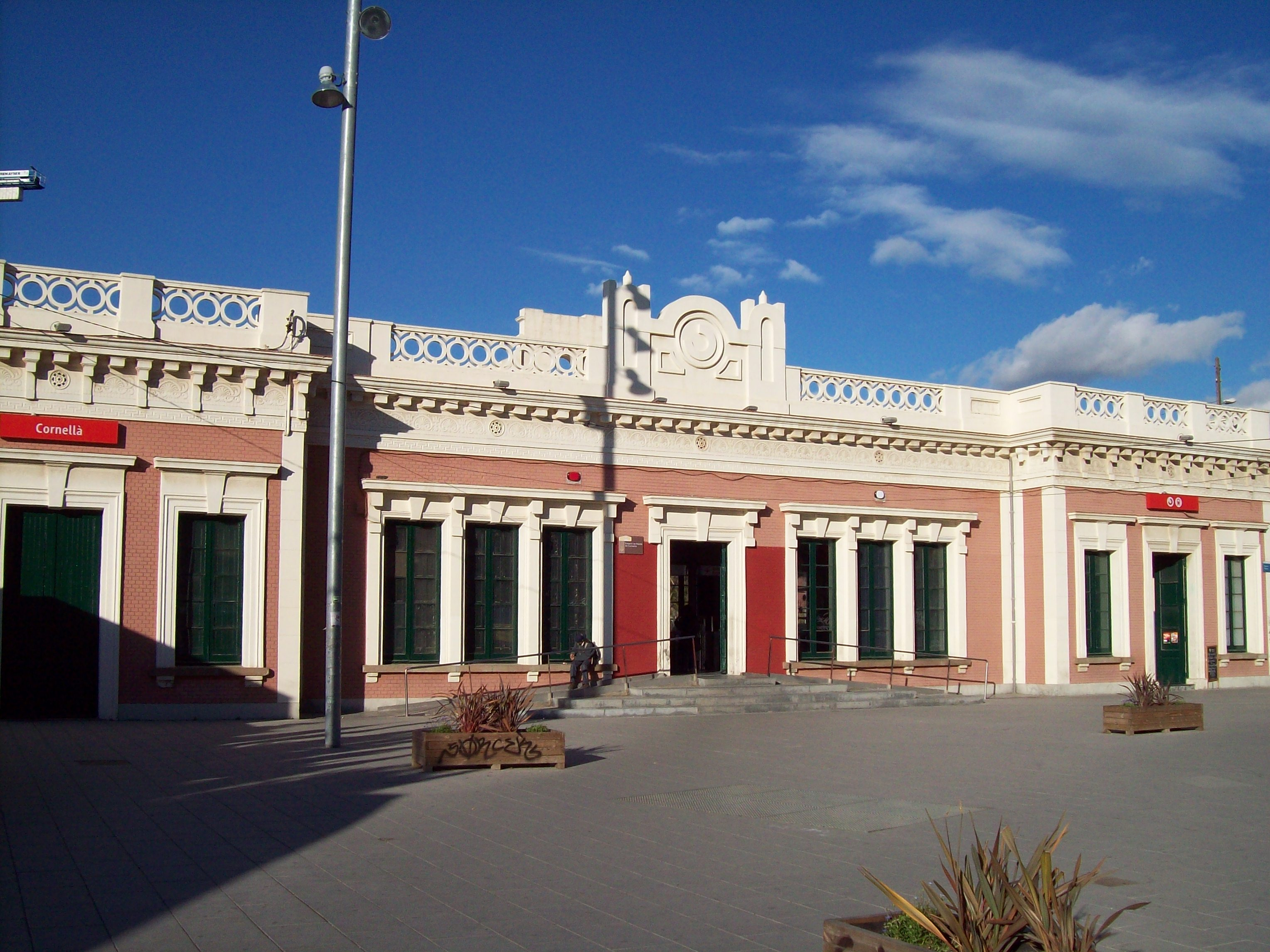 Cornellà de Llobregat's Train Station (XIX century)